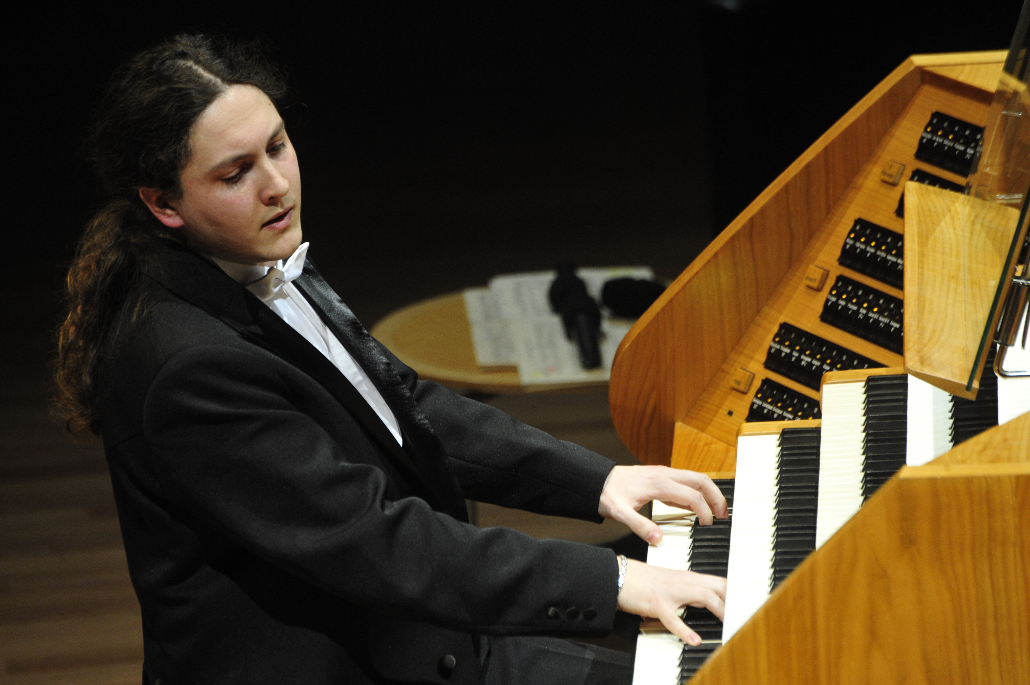 Balázs Szabó during his recital at the console of the great organ in Palace of Arts Budapest 2011